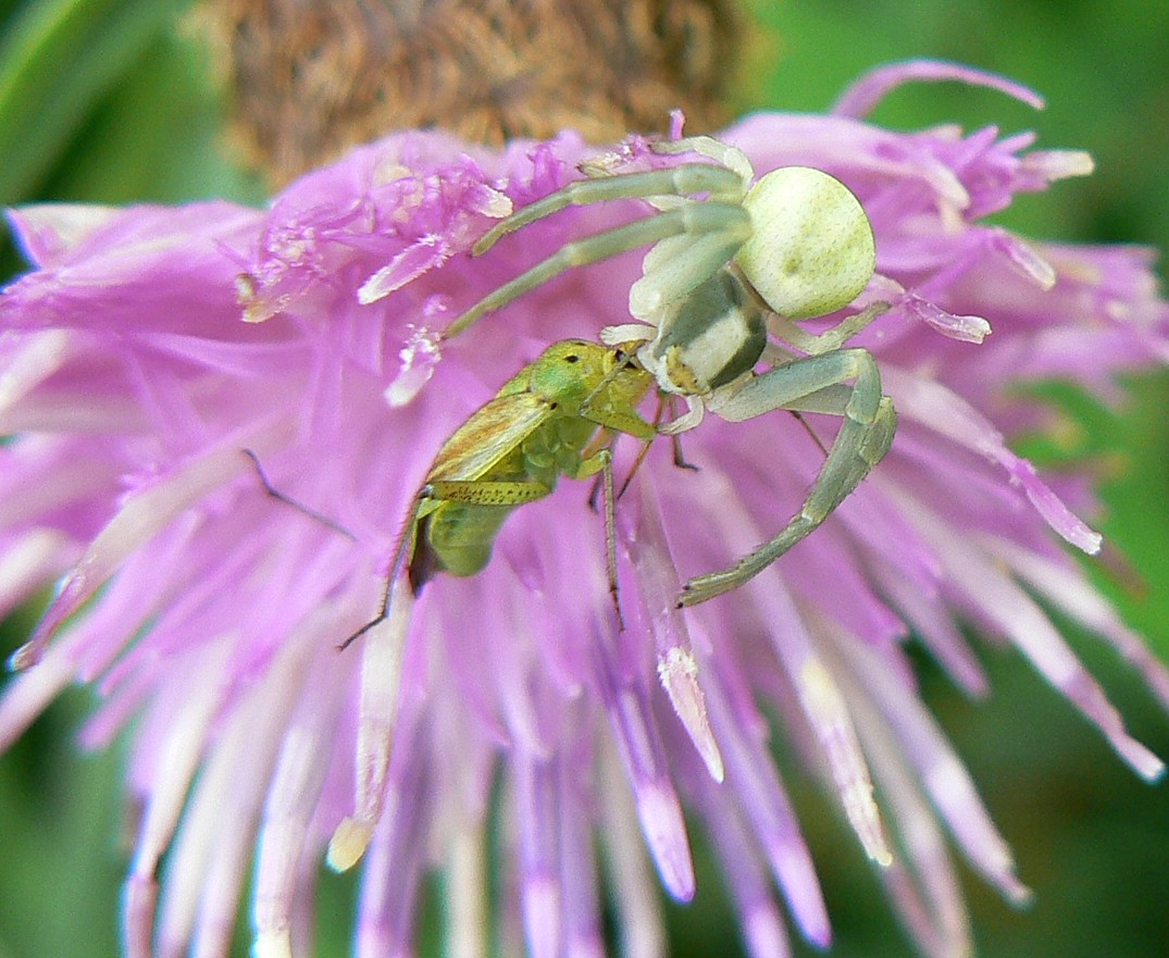 Crabspiders of the species "Misumena vatia" are white or yellow, depending on the flower in which they are hunting.